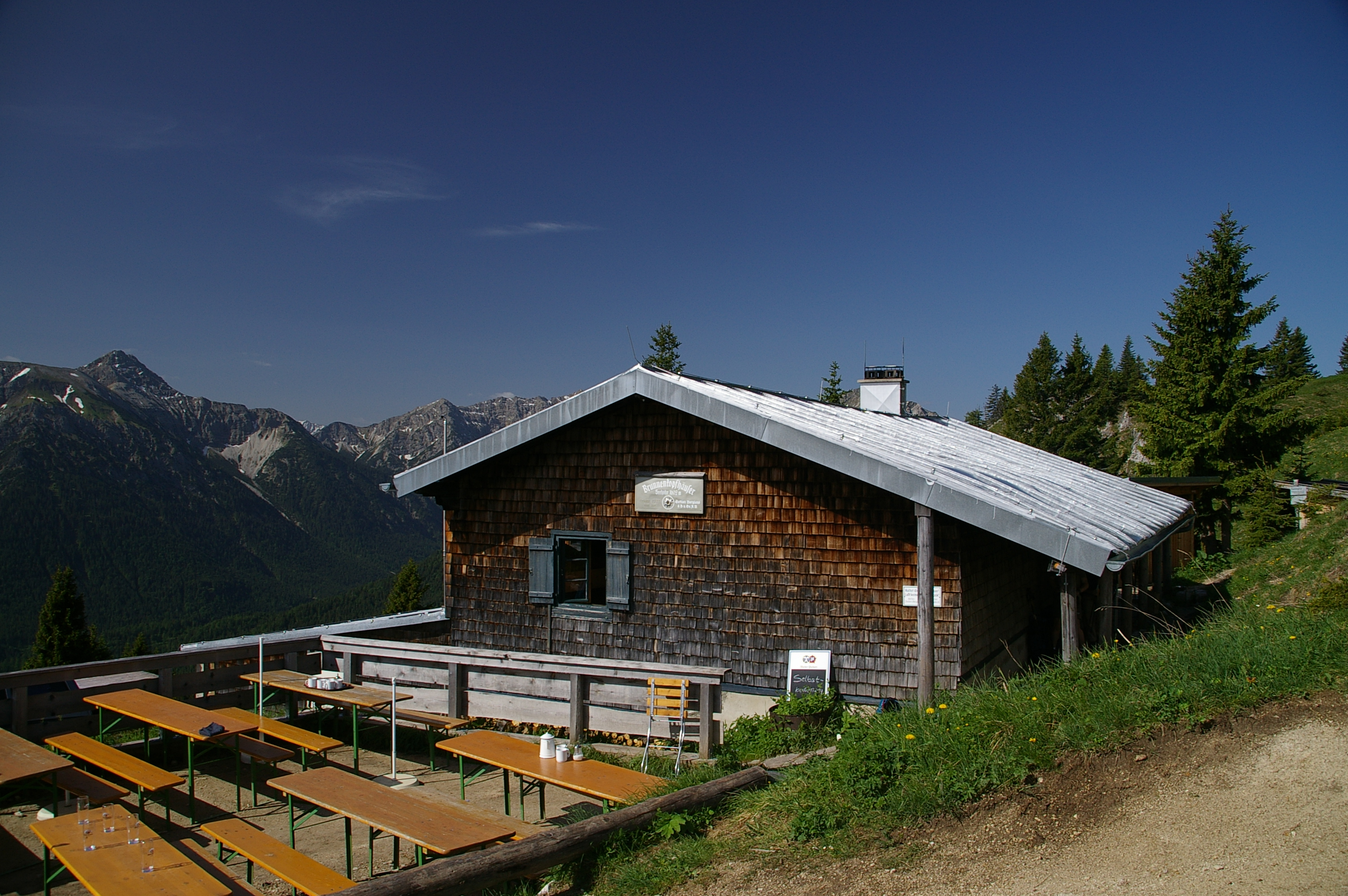 The alpine hut “Brunnenkopfhäuser” in the Ammergauer Alps.